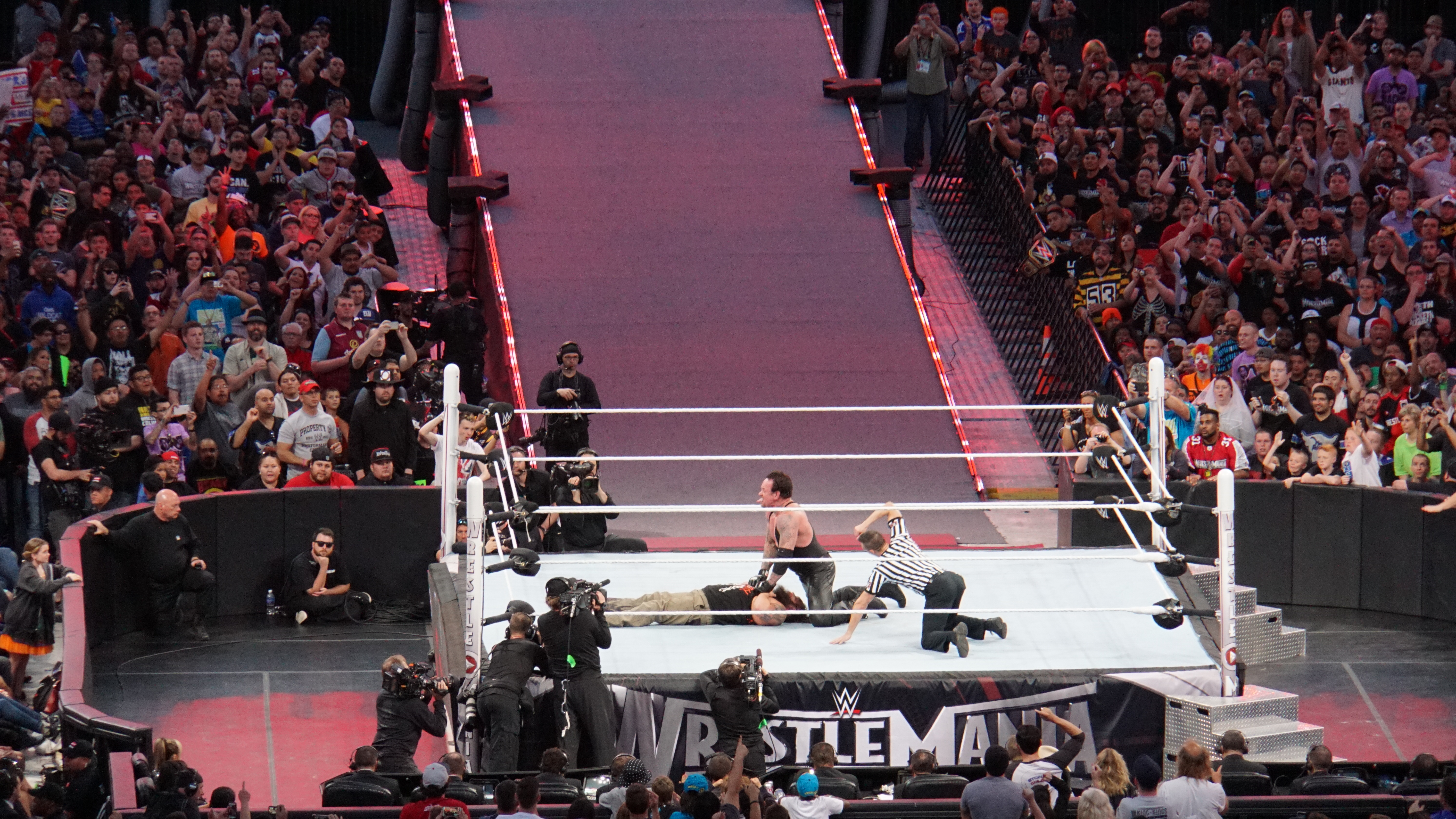 2015-03-29_19-24-51_ILCE-6000_DSC09542